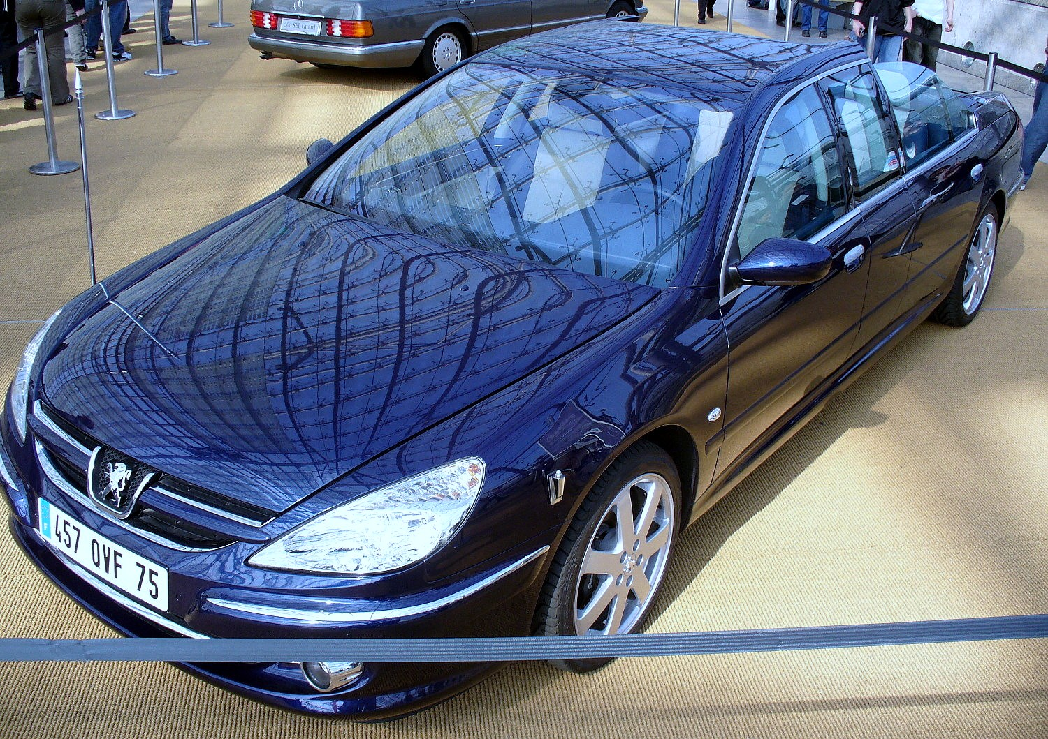 The Peugeot 607 Paladine is a concept car prototype built by Heuliez in 2000 on the 607 platform. This car have been used by the french President Nicolas Sarkozy for a Champs Elysee ceremony, the first day of his presidency.